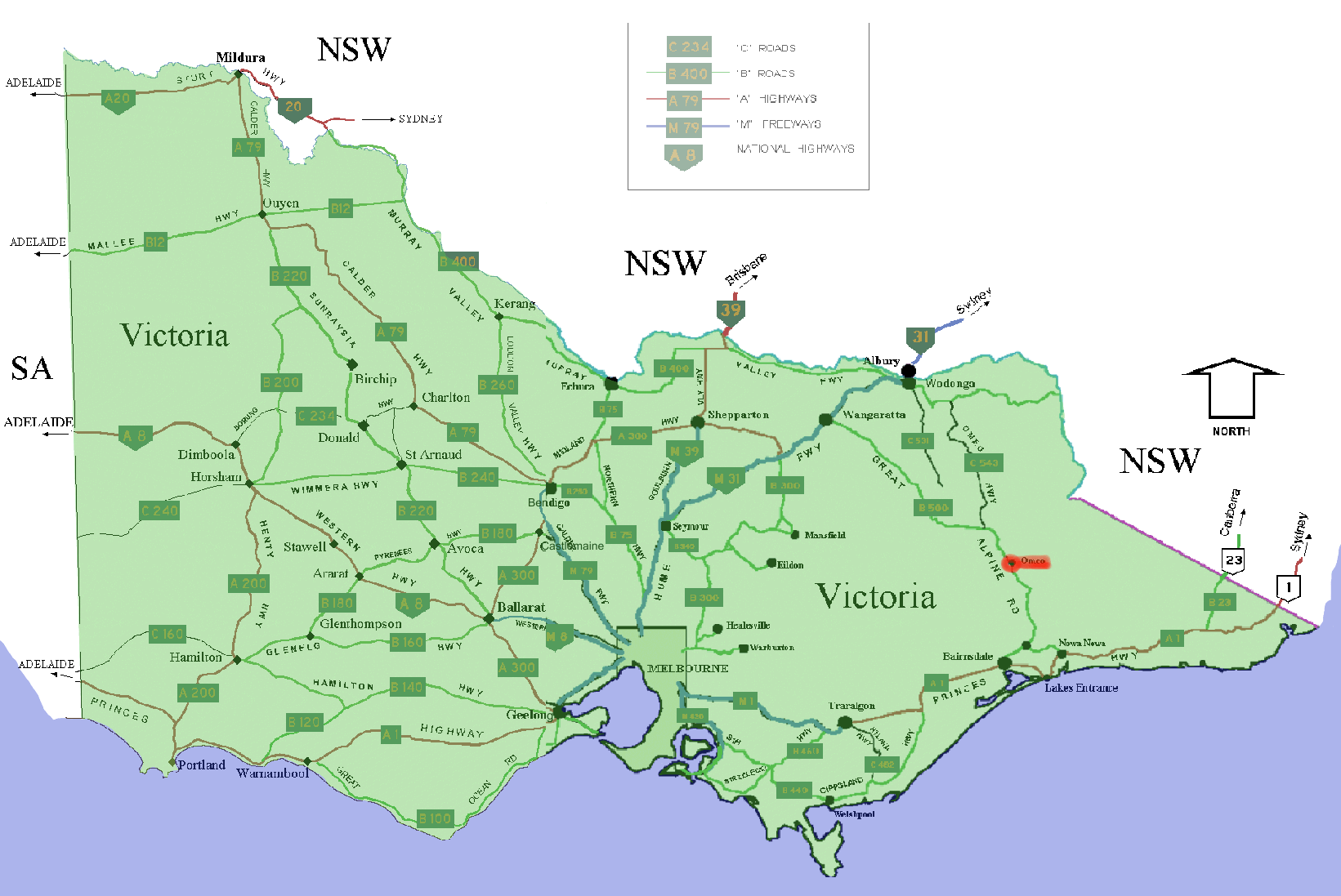 Shows location of w: Omeo, Victoria marked in red in the Australian state of Victoria (Australia).